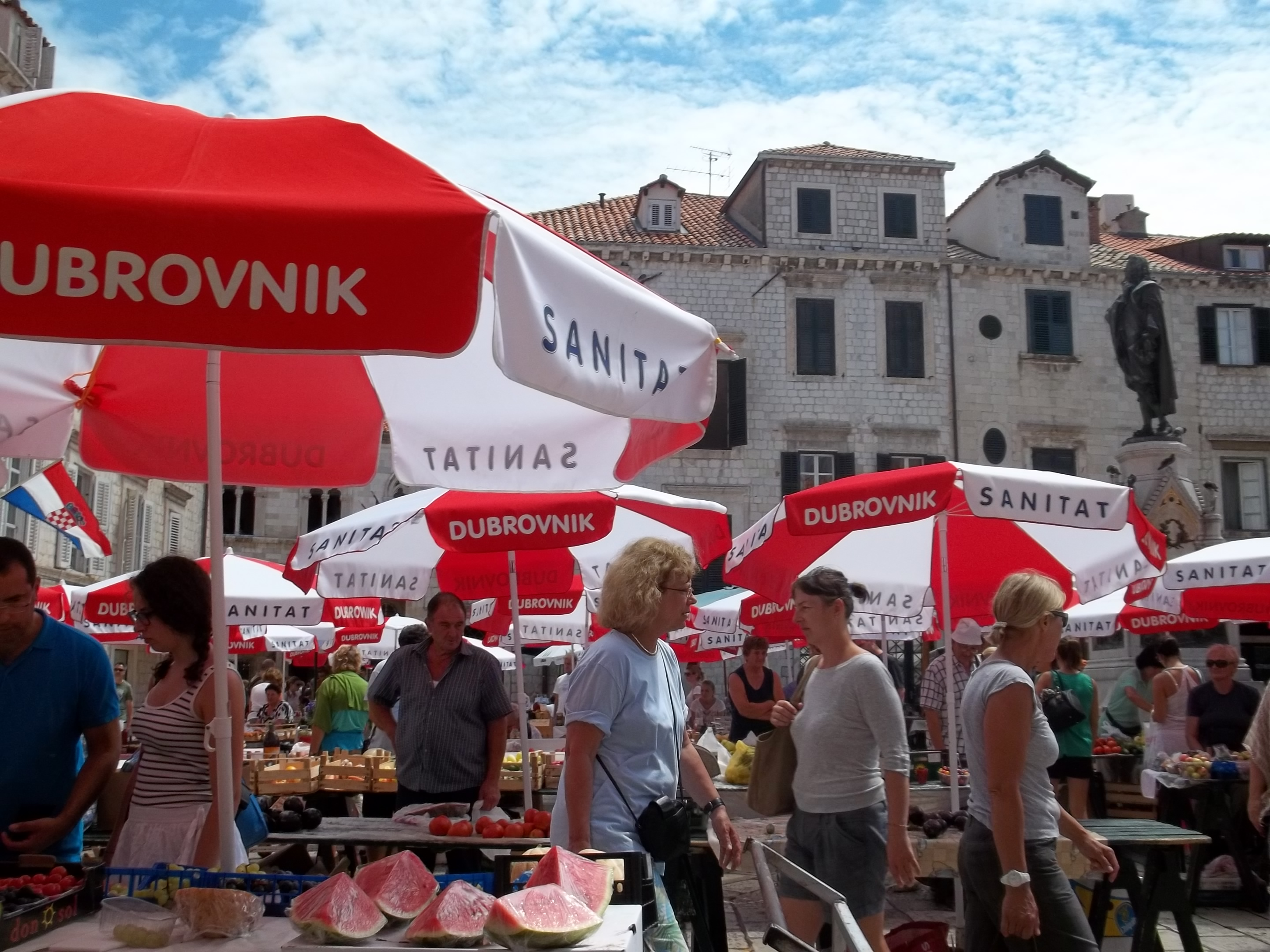 Watermelons at Market Town, Dubrovnik.